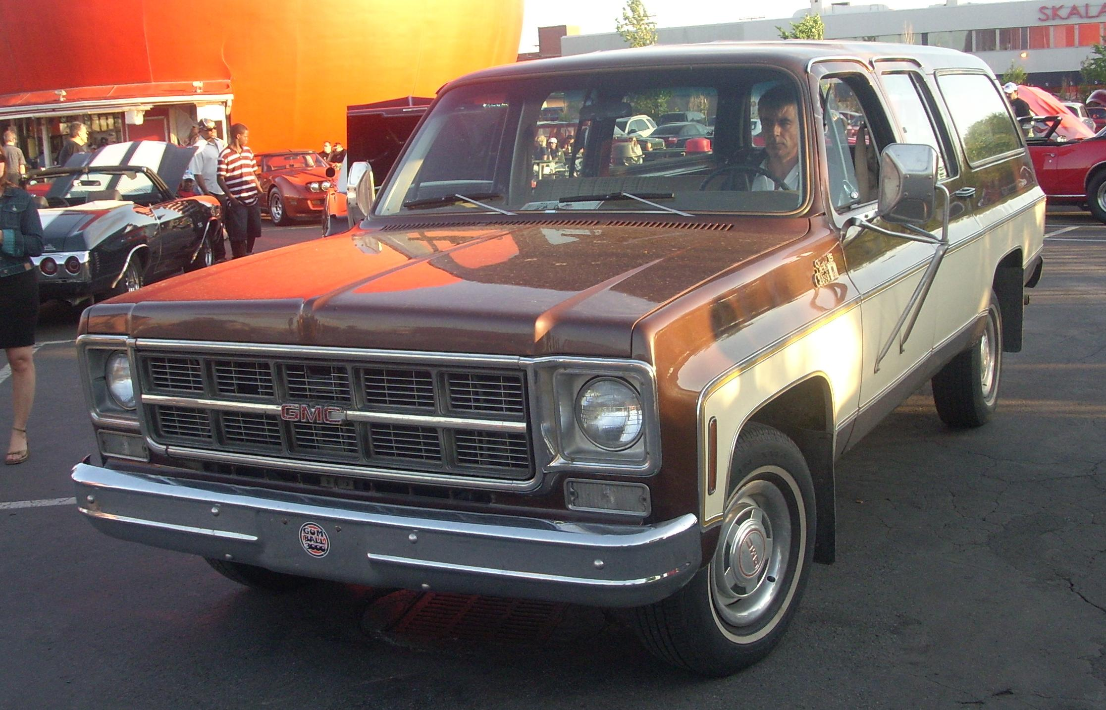 1977-1978 GMC Suburban photographed in Montreal, Quebec, Canada at Gibeau Orange Julep.